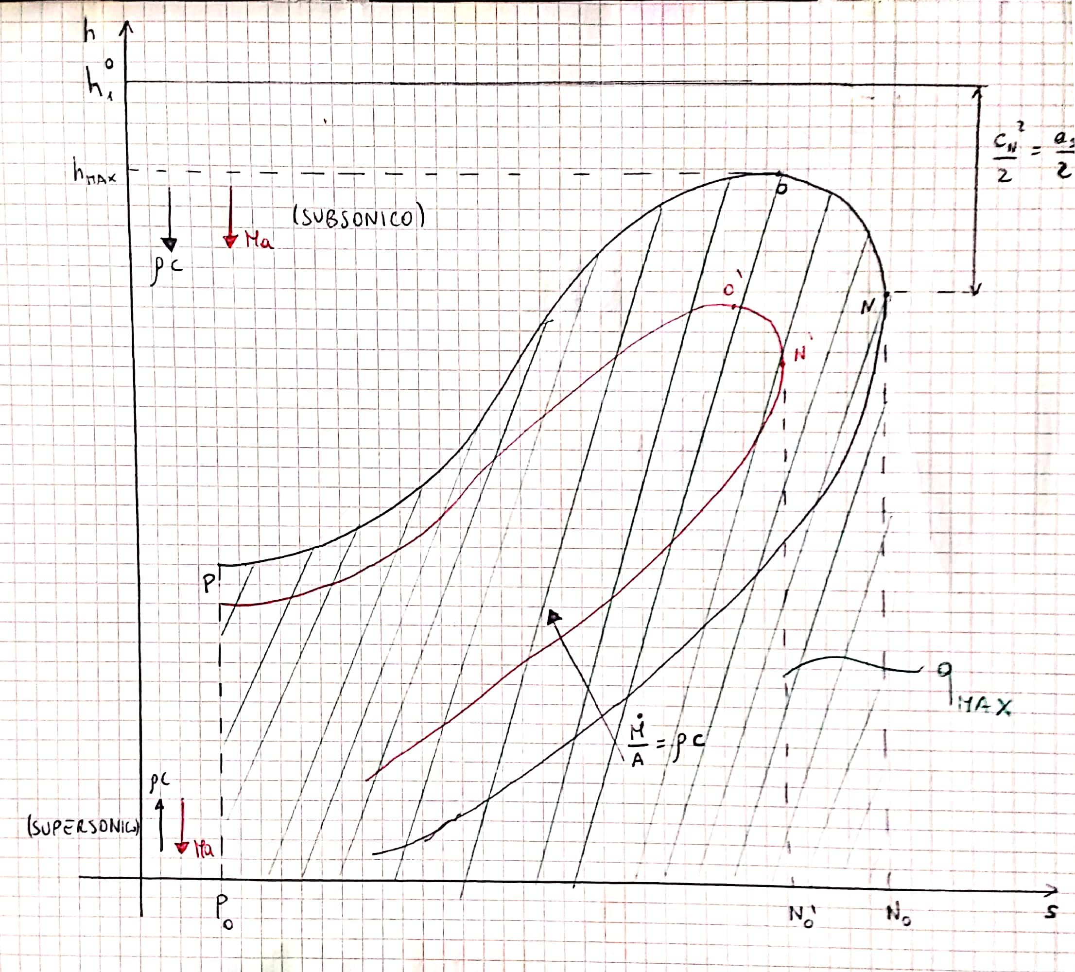 Graphic representation of the maximum heat to be provided before thermal choking in a Rayleigh duct